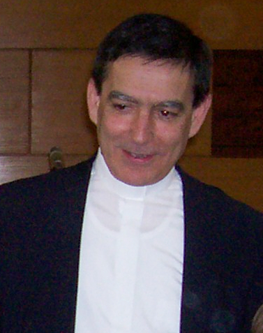 Alberto Girlada Cid